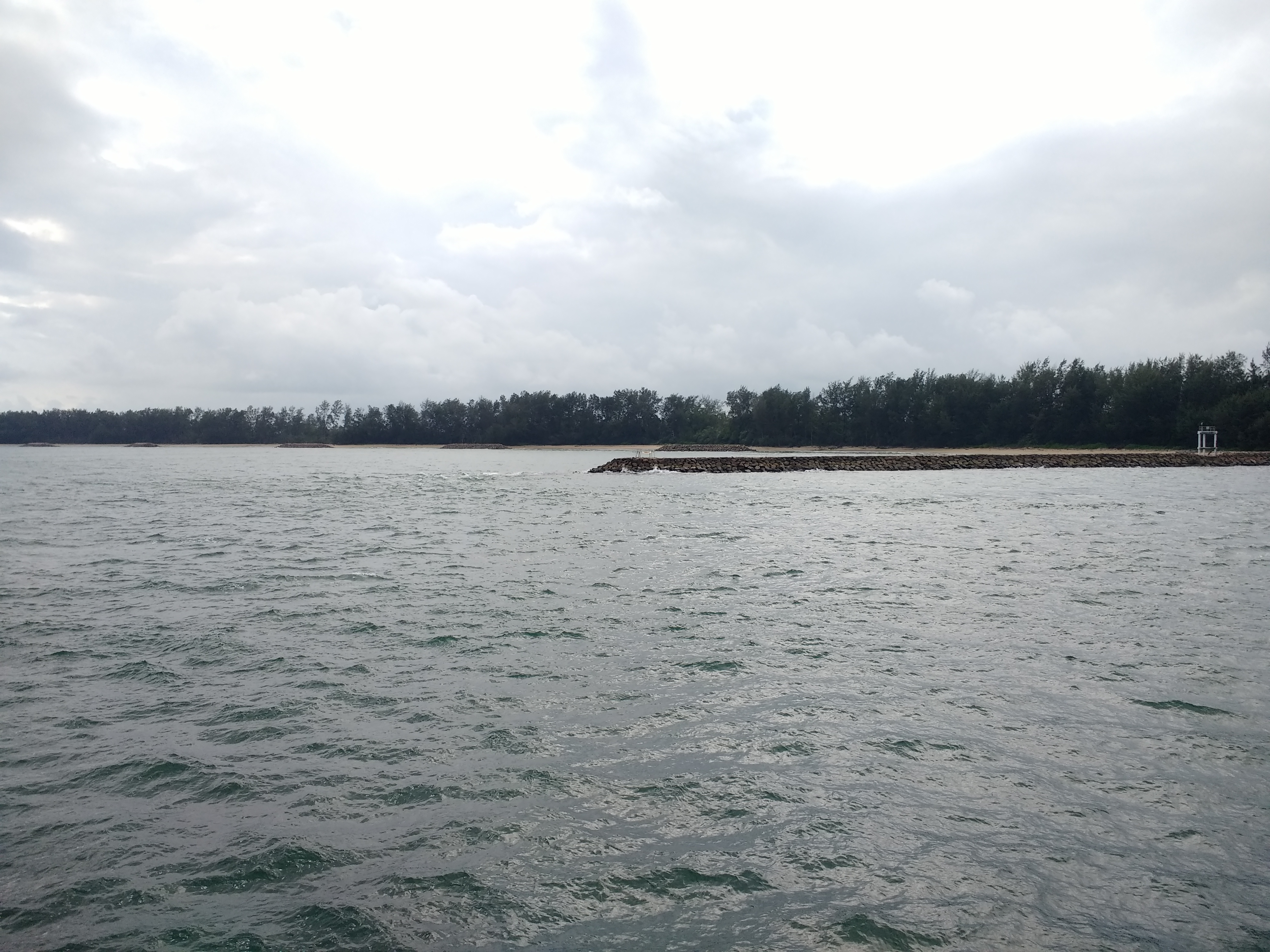 Pelumpong Spit (Tanjong Pelumpong) in Brunei.